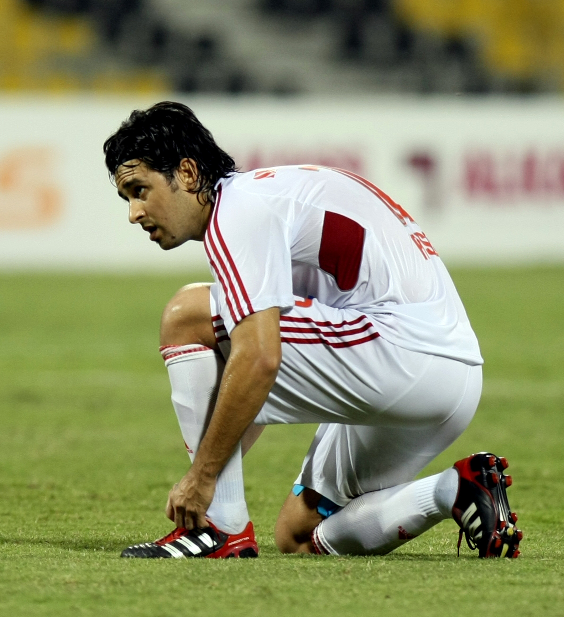 Al Arabi's Argentinian player Leonardo Pisculichi during a Qatar Stars League game. Pic by Mohan